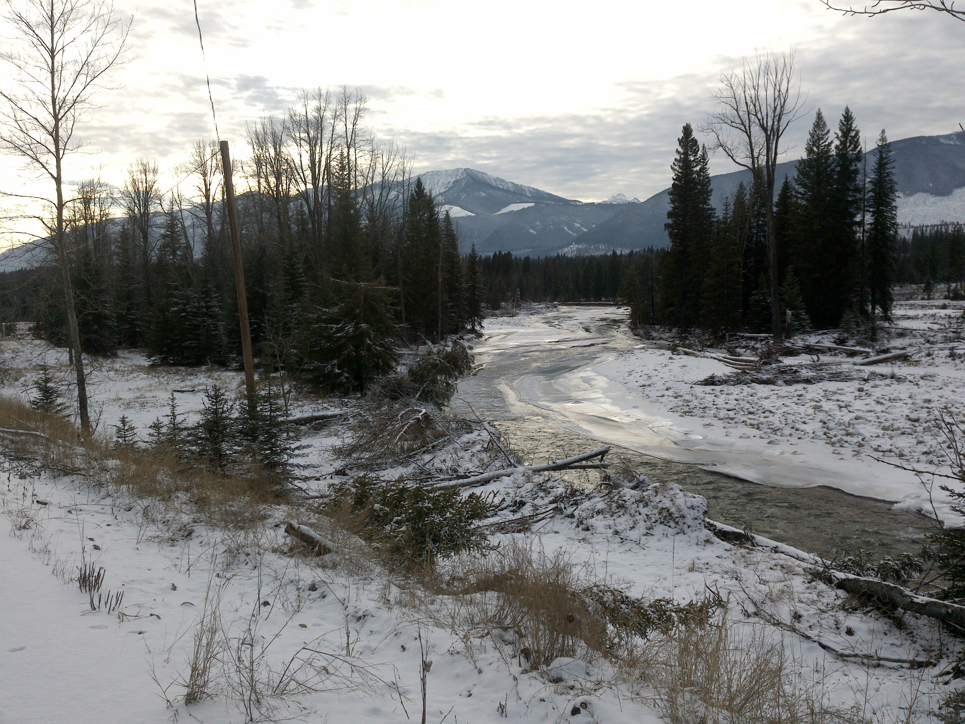 Sparwood, BC V0B, Canada